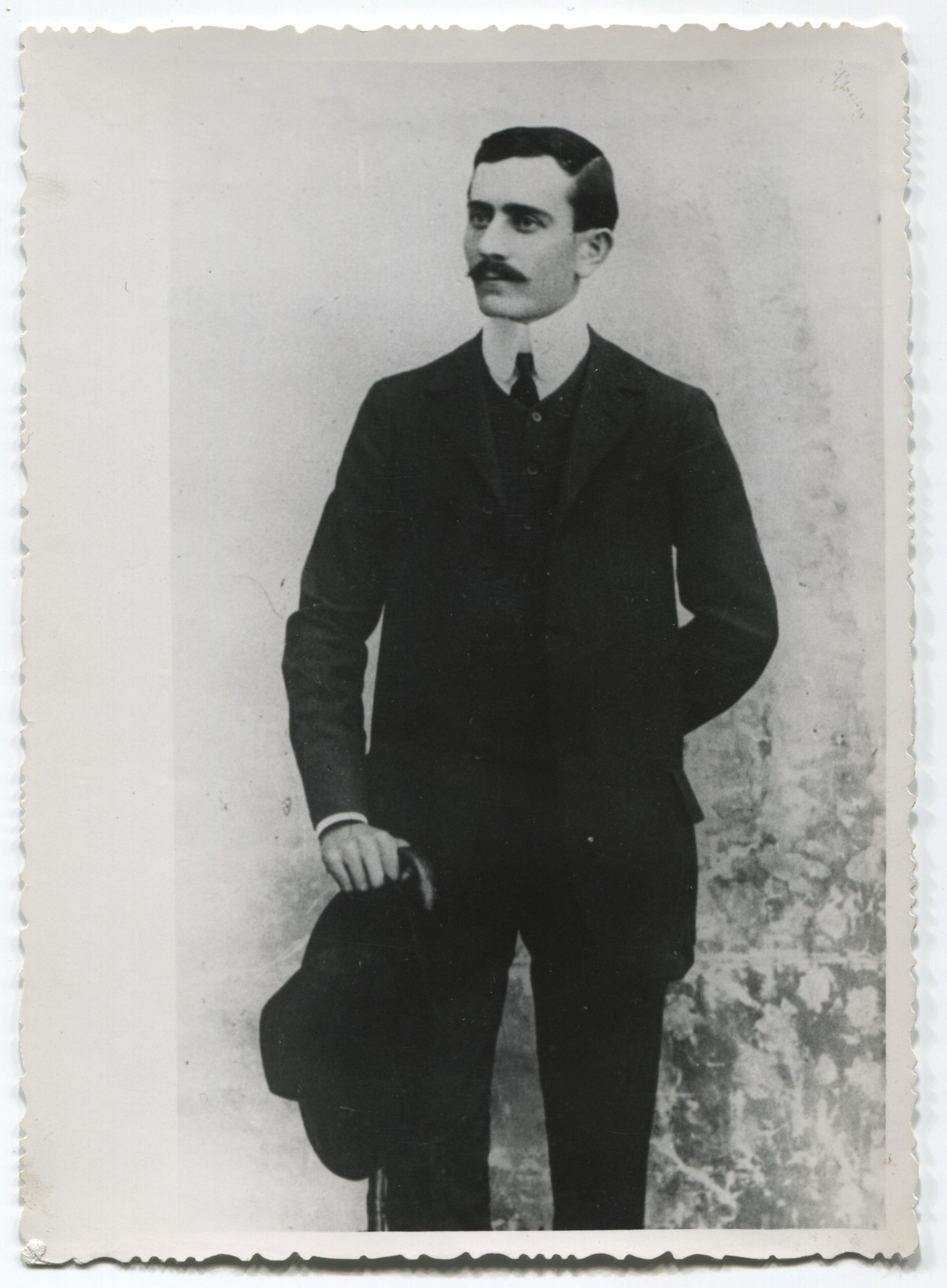 Portrait of Bogdan Žerajić, between 1902 and 1910, unknown author, Museum of Sarajevo. It entered the public after his death (1910).